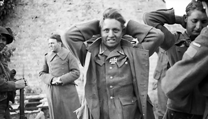 A German prisoner captured by Canadian troops at Langrune sur Mer, 7 June 1944.